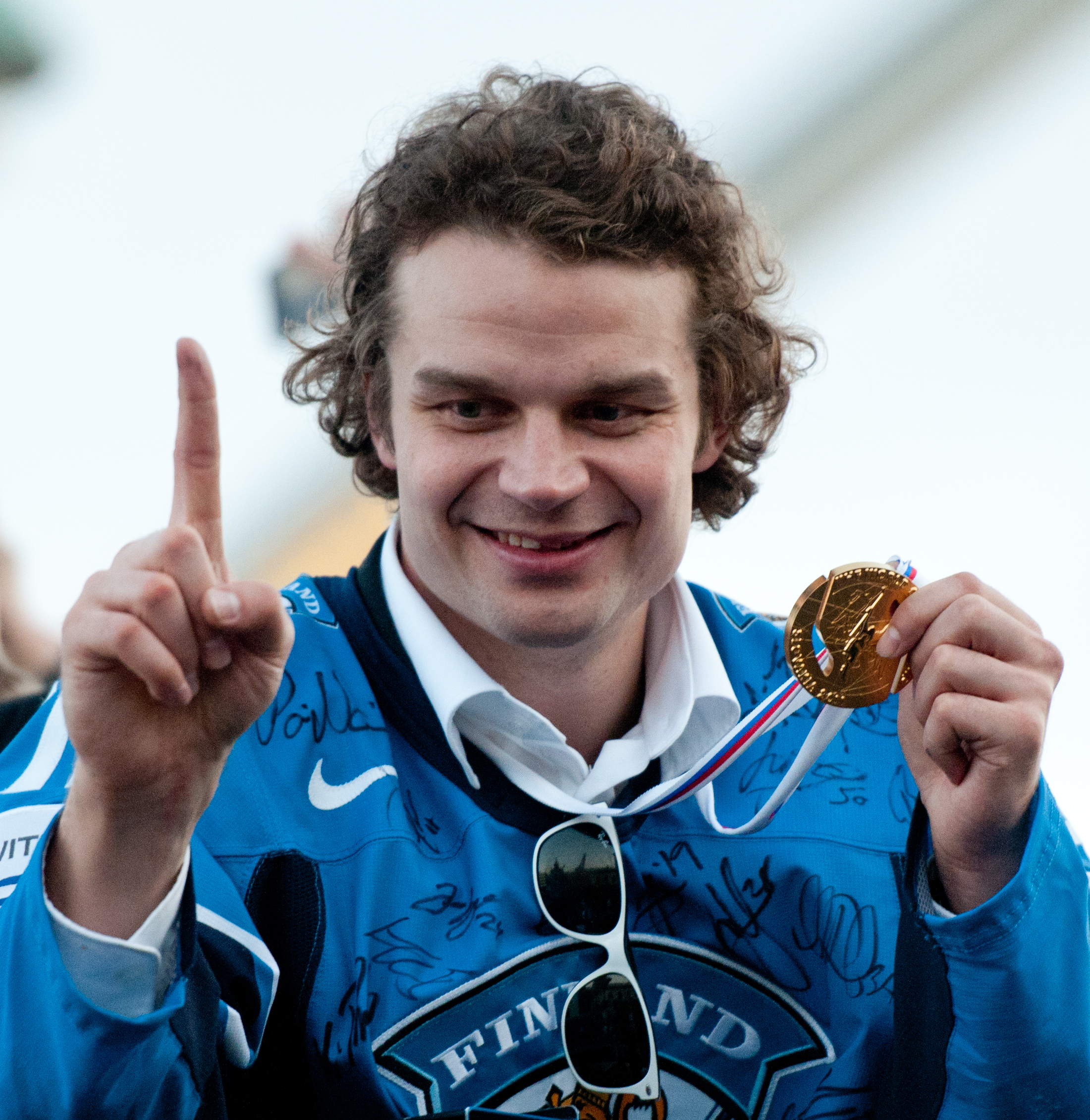 Janne Pesonen at 2011 IIHF World Championship gold medal celebrations in Helsinki